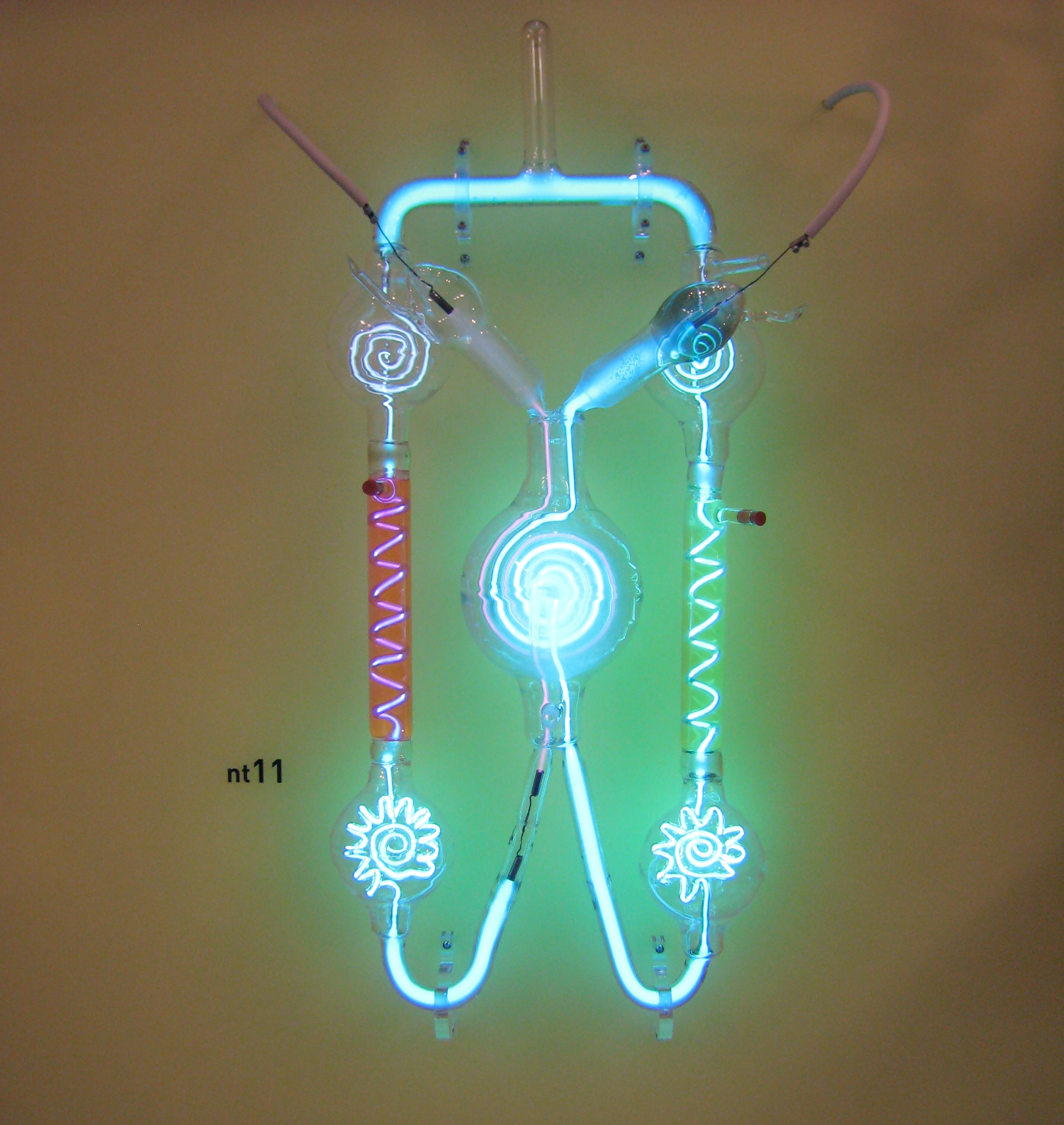 A modern electrical artwork that is an imitation of a Geissler tube, a gas discharge tube invented by Heinrich Geissler in 1857. It consists of a series of glass tubes filled with various gases at low pressure, with metal electrodes at each end. A high voltage of several thousand volts is applied between the electrodes. The high voltage ionizes the gas causing it to give off light by fluorescence in a glow discharge. The color of the light depends on the gas used. Geissler tubes like this of many elaborate shapes and colors were made for entertainment around the turn of the 20th century. By the 1920s this technology was commercialized in neon signs.